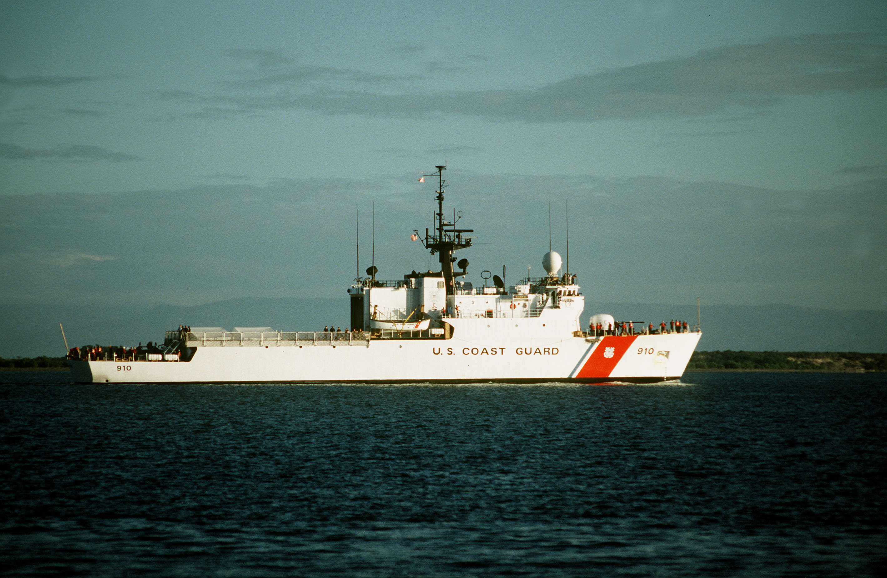 The U.S. Coast Guard Cutter THETIS (WMEC-910) enters Guantanamo Bay to pick up 125 Haitians who will be repatriating to Port-au-Prince, Haiti.